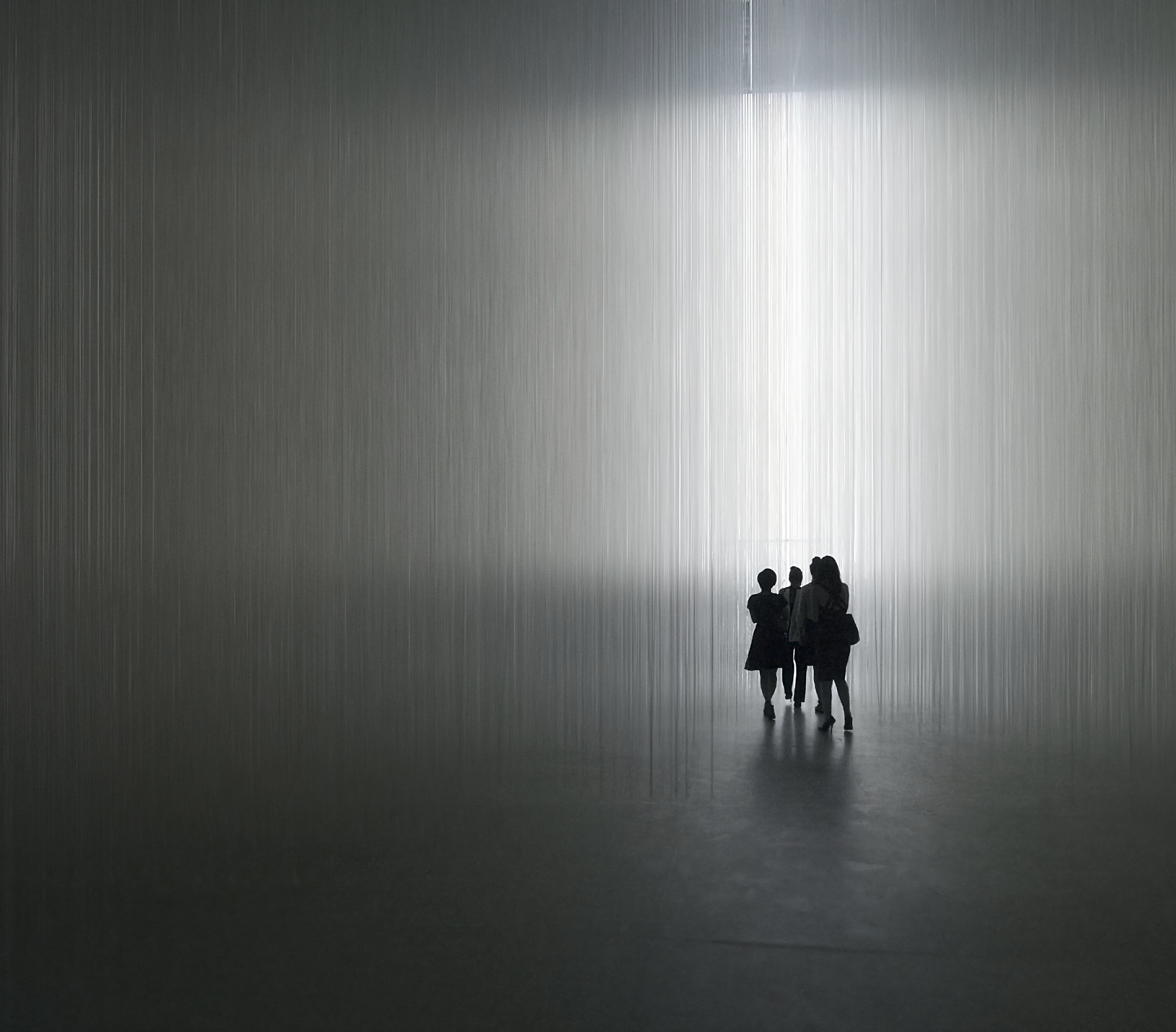 Cartier TIME ART 2014 by Tokujin Yoshioka